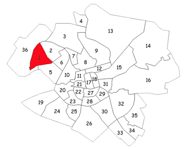 Pryssgården in red.